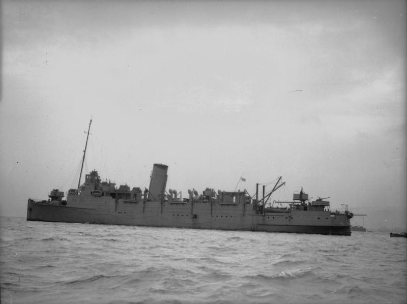 The Royal Navy during the Second World War HMS BRIGADIER in coastal waters off Greenock, Renfrewshire, Scotland, UK.